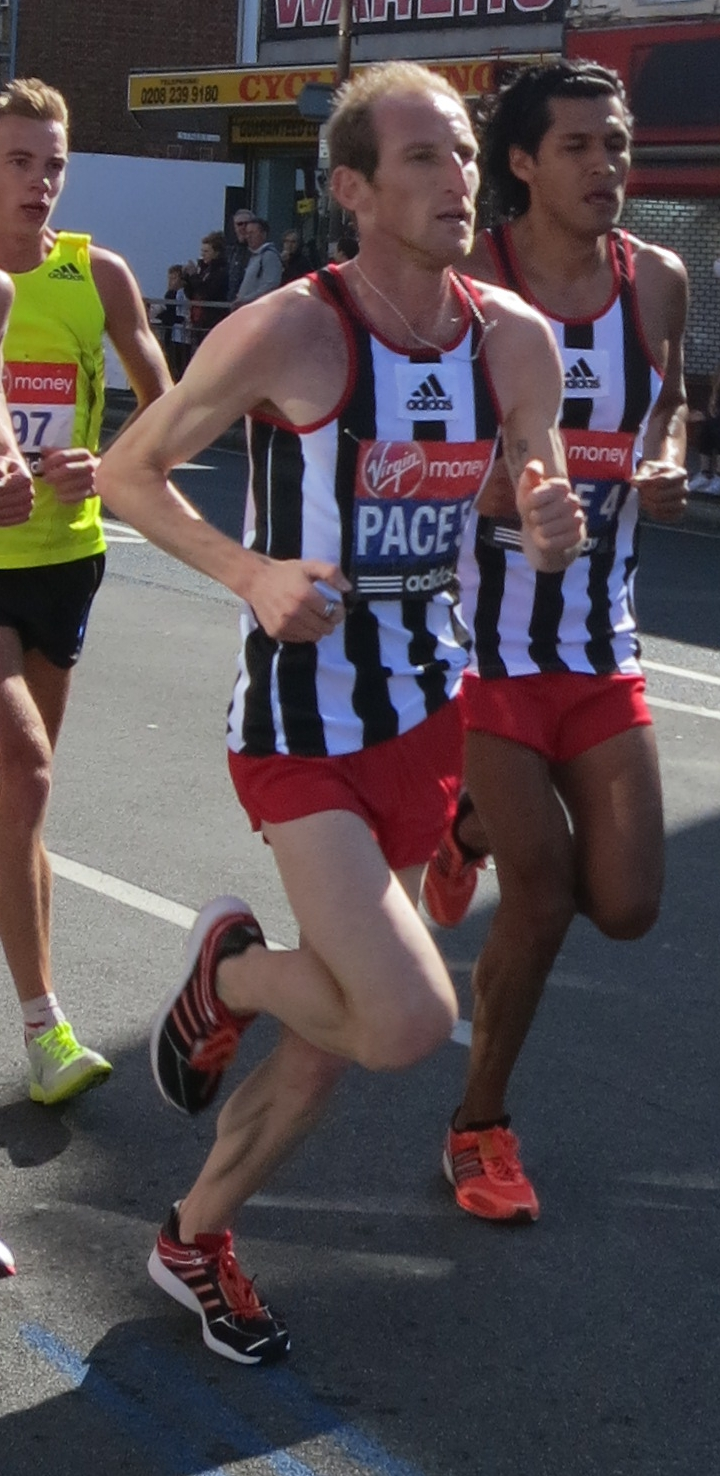 Scott Overall running in the London Marathon 2012